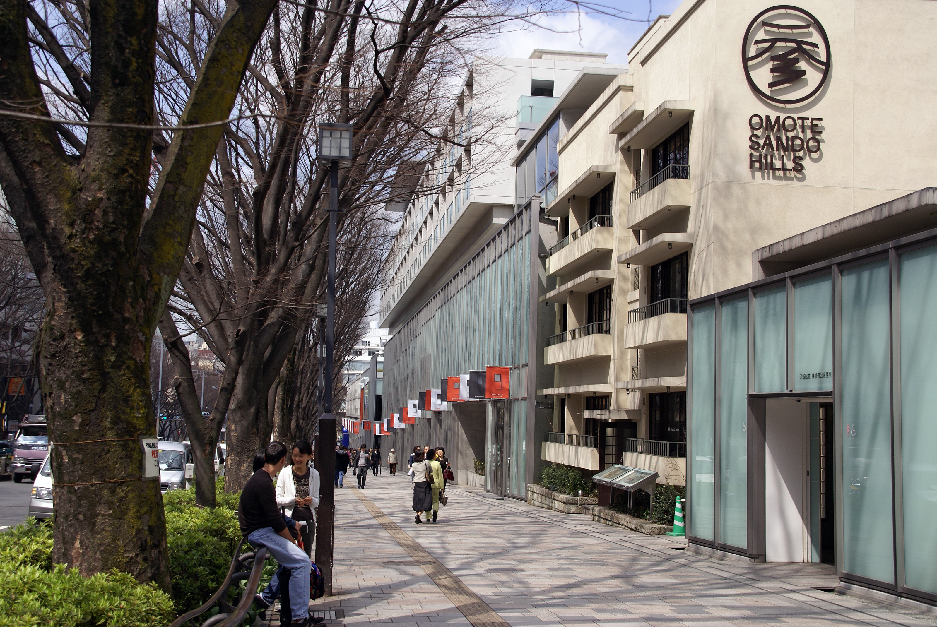 Omotesando-street in Shibuya-ku, Tokyo, Japan Good Design Award 2006. (Architecture and Environment Design)